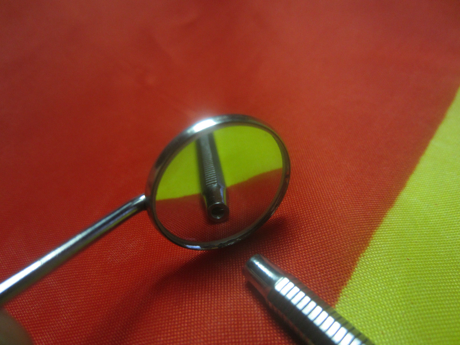 Mouth Mirror (European Norm) Flat end of the mirror handle is designed for the European Norm that do not match with US norm.